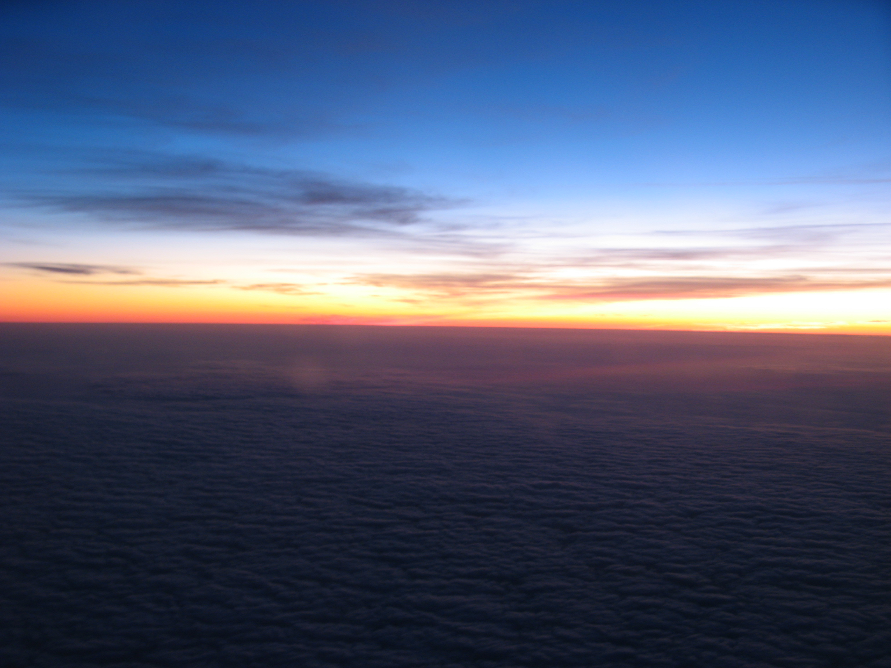 Sunrise (on the way from Gothenburg to Copenhagen)